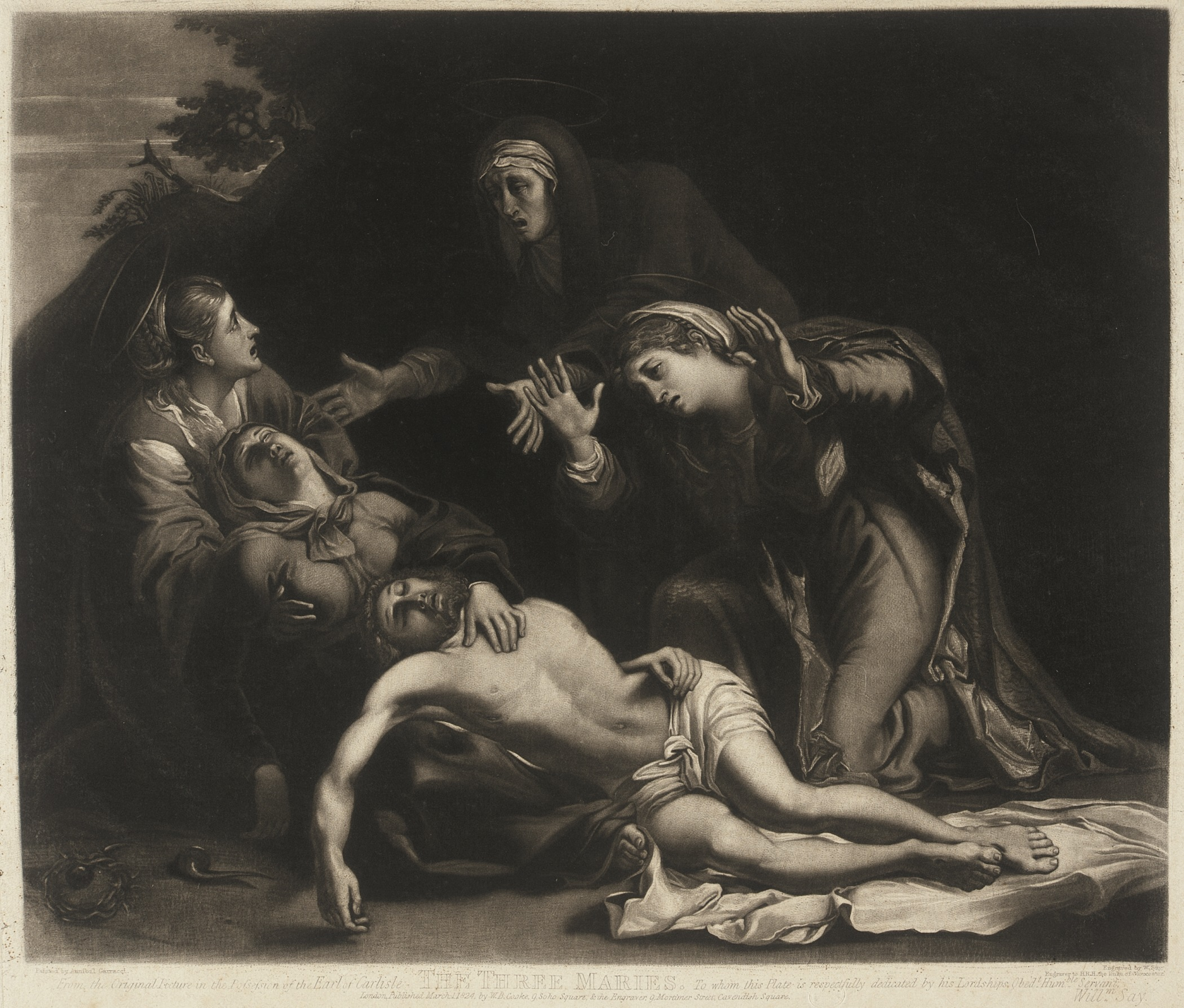 England, 1824 Prints; mezzotints Mezzotint Sheet: 18 3/8 x 21 5/8 in. (46.67 x 54.93 cm) Gift of Alfred and Esther Norris (M.83.318.70) Prints and Drawings